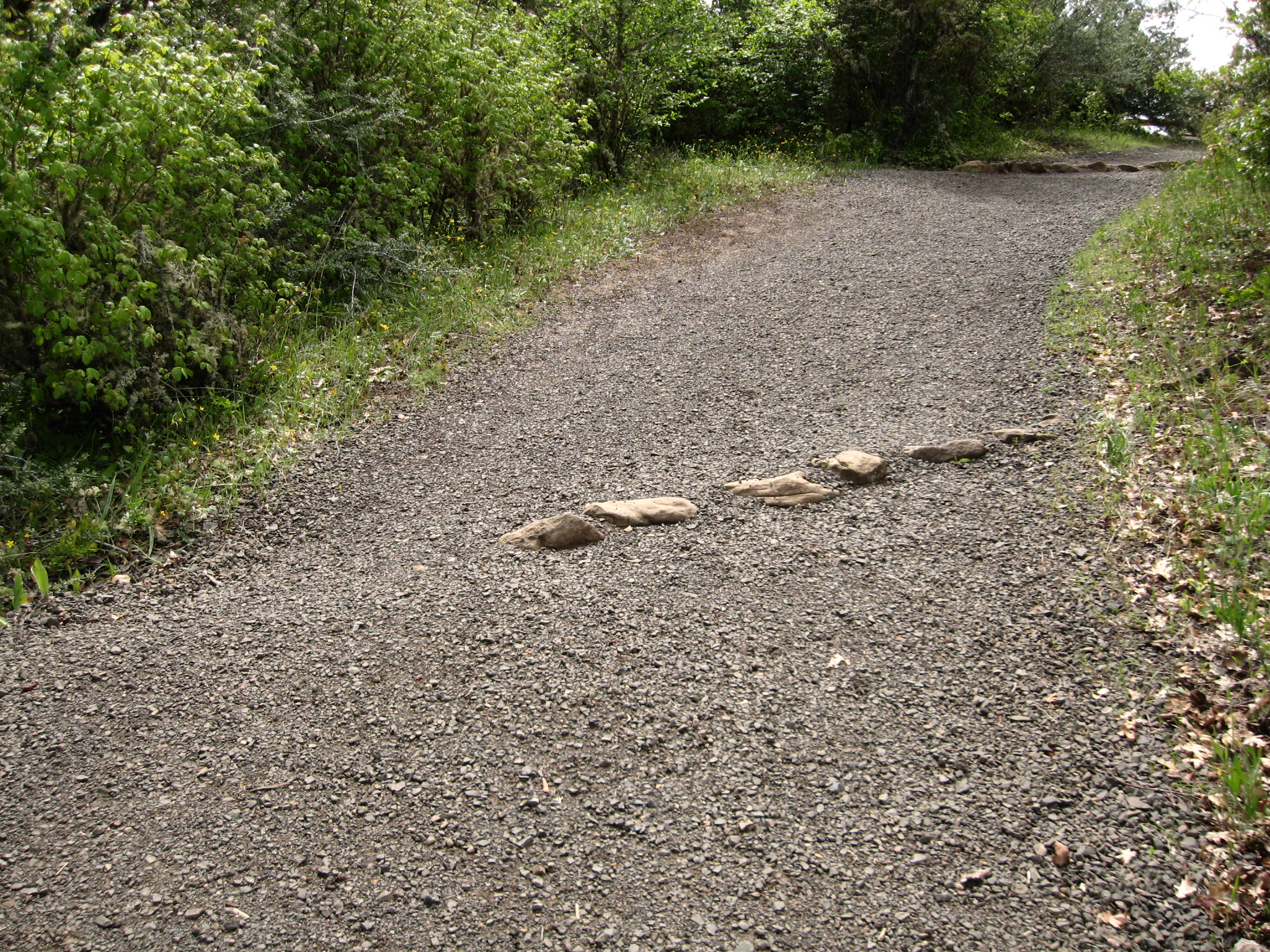 A waterbar located on Upper Table Rock in Jackson County. This waterbar is in need of repair, one side of the rock line has eroded away. Water has already sunk the ground where the rocks are missing, and soil erosion can be seen on the left edge of the trail. The right side of the waterbar is still intact, and even extends over the edge of the trail a bit. A slightly more complete waterbar can be seen further up the trail.